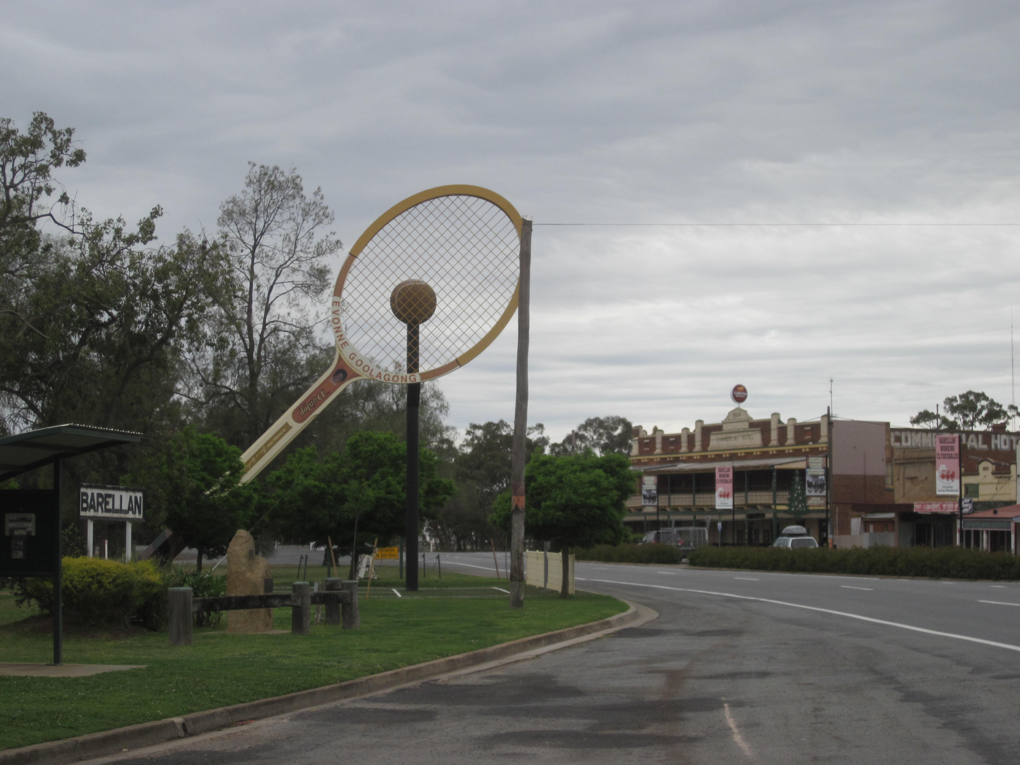 The "big" tennis racquet at Barellan, New South Wales, commemorates the achievements of Evonne Goolangong who lived in the town.